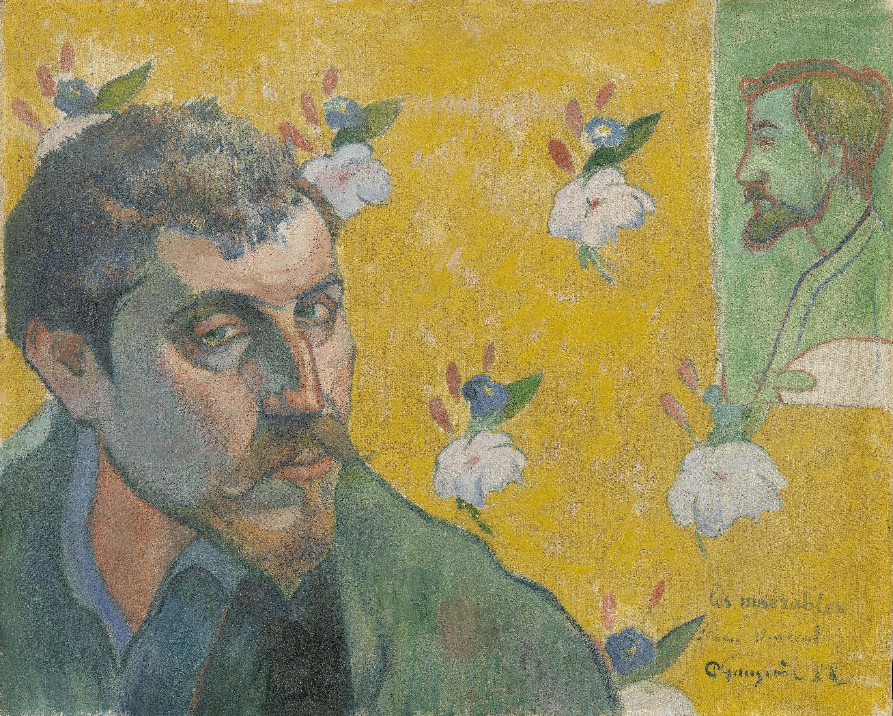 Self-portrait (in the role of 'Les Misérables' protagonist Jean Valjean) with Émile Bernard portrait in the background, for Vincent van Gogh.